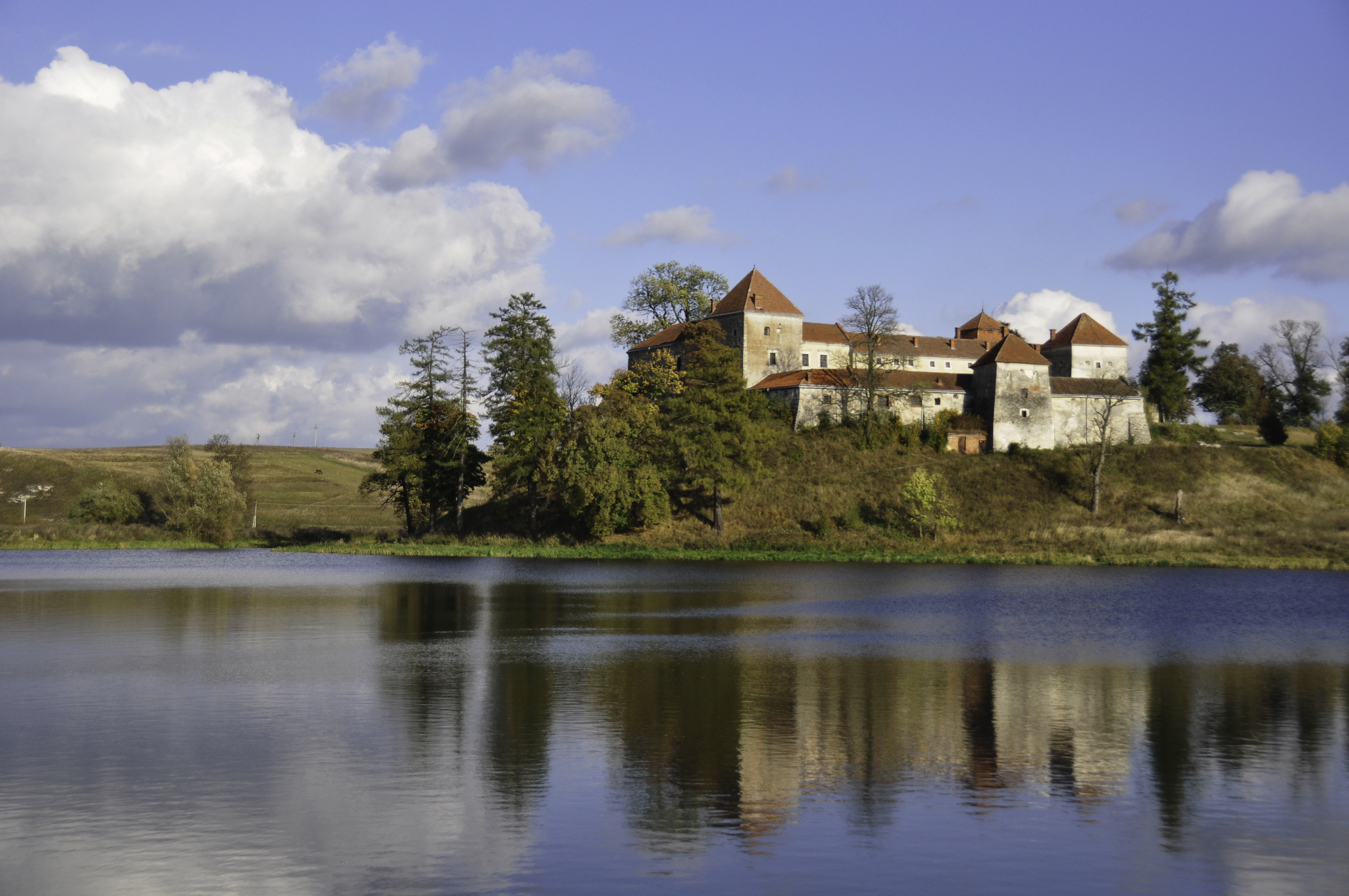 Castle in Svirzh, Peremyshliany Raion, Lviv Oblast. View from the West